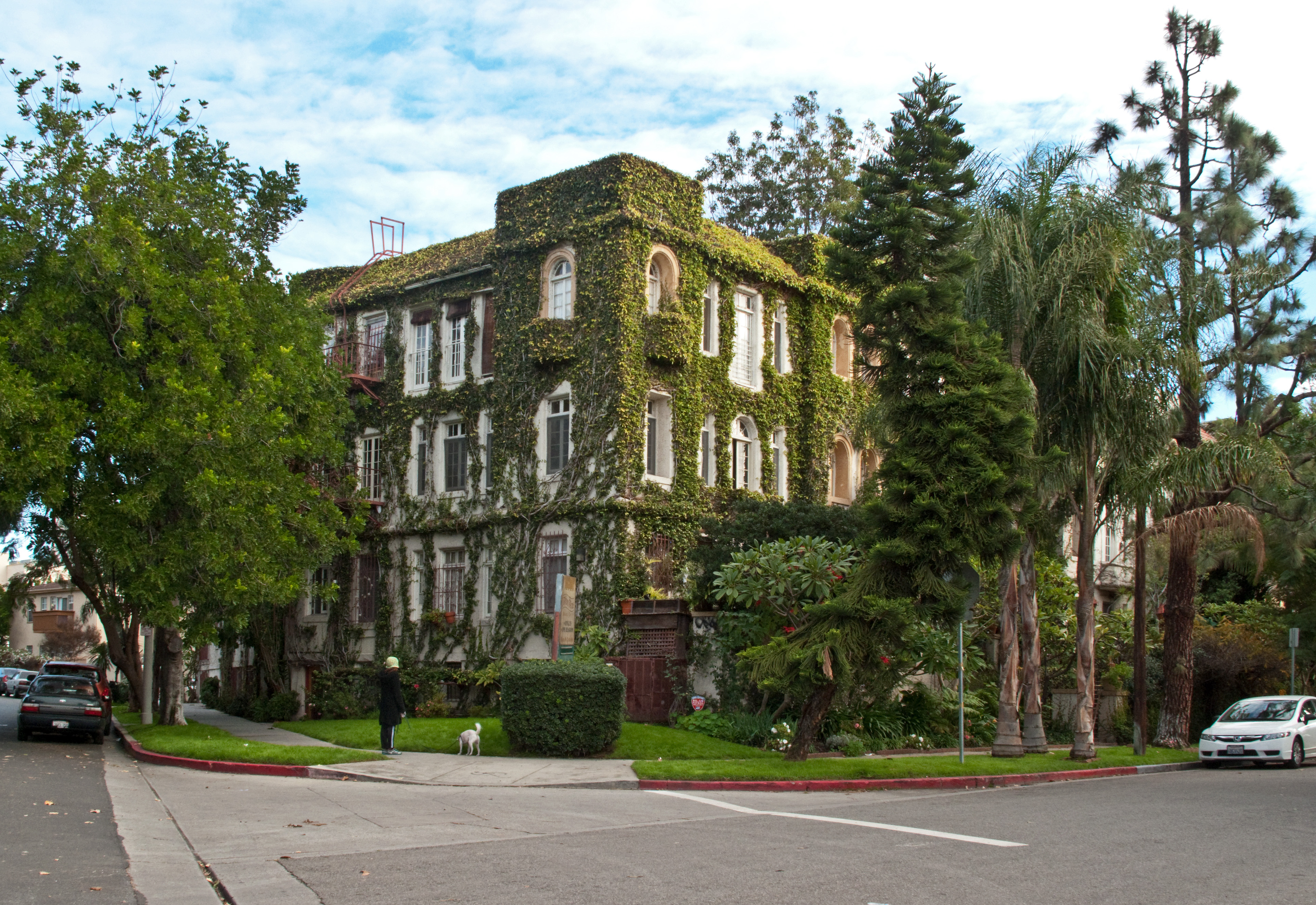 Afton Arms Apartments, 6141 Afton Place, in the Hollywood district of Los Angeles, California. Los Angeles Historic-Cultural Monument #463.